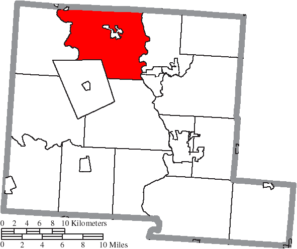 Map of the municipal and township boundaries of Pickaway County, Ohio, United States, as of the 2000 census, with the location of Scioto Township highlighted. Township borders are shown only in unincorporated areas in order to differentiate incorporated and unincorporated areas more clearly.